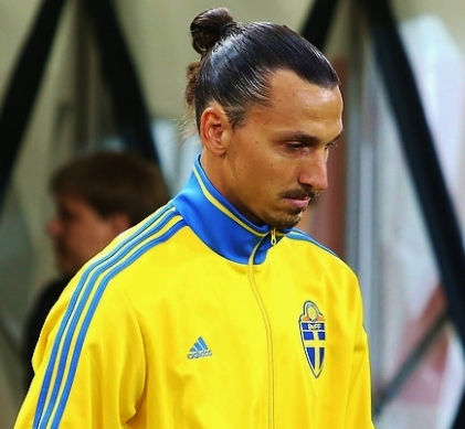 Zlatan Ibrahimović